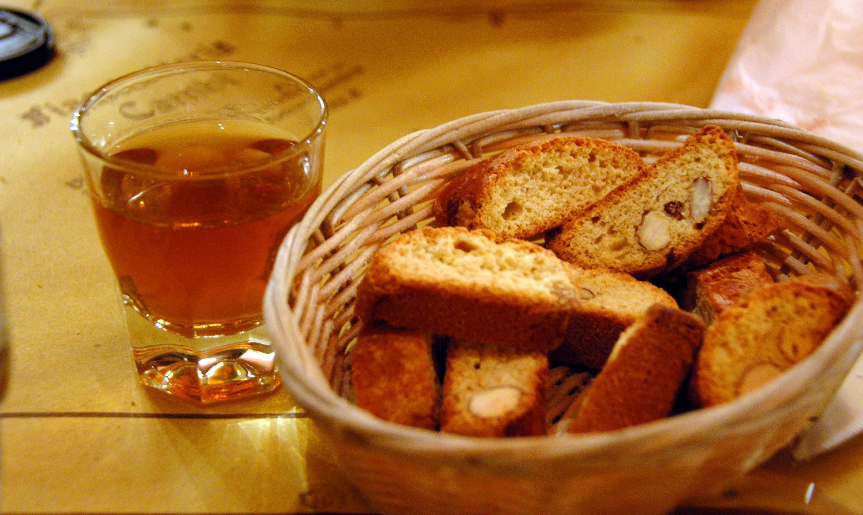 Vin Santo Italian dessert wine in a shot glass with some biscotti